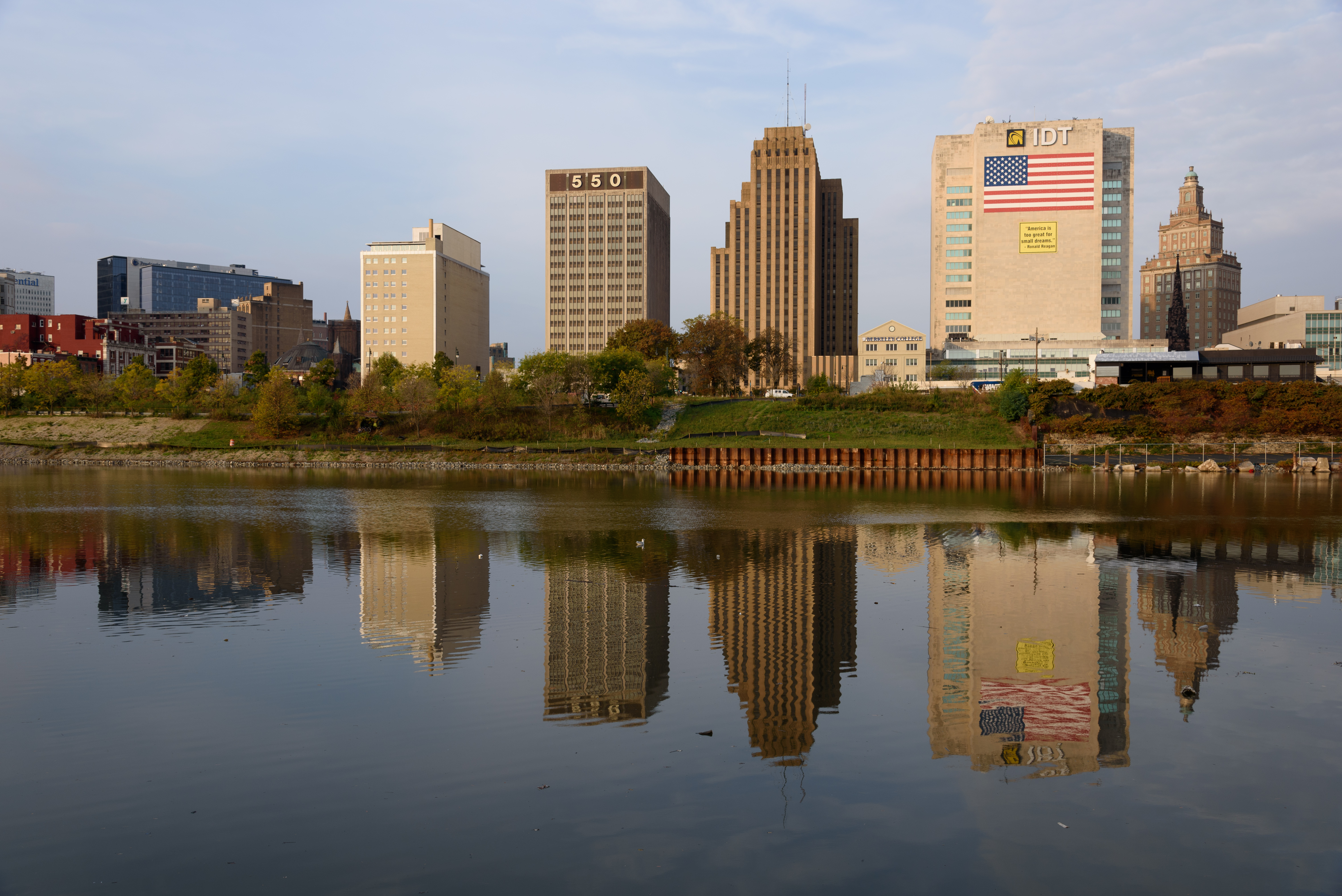 Newark skyline as seen Harrison, New Jersey.